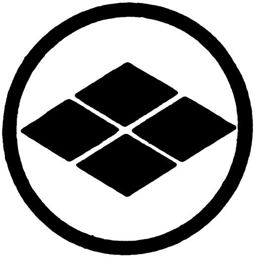 Patch (emblem, mon) of Yamanni Chinen Ryu, Okinawan martial art.